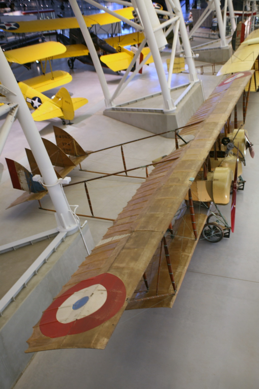 Physical Description: Twin-engine, two-seat Caudron G.4 biplane reconnaissance and bomber aircraft; two 80-horsepower Le Rhone 9C rotary engines. Tan finish overall.